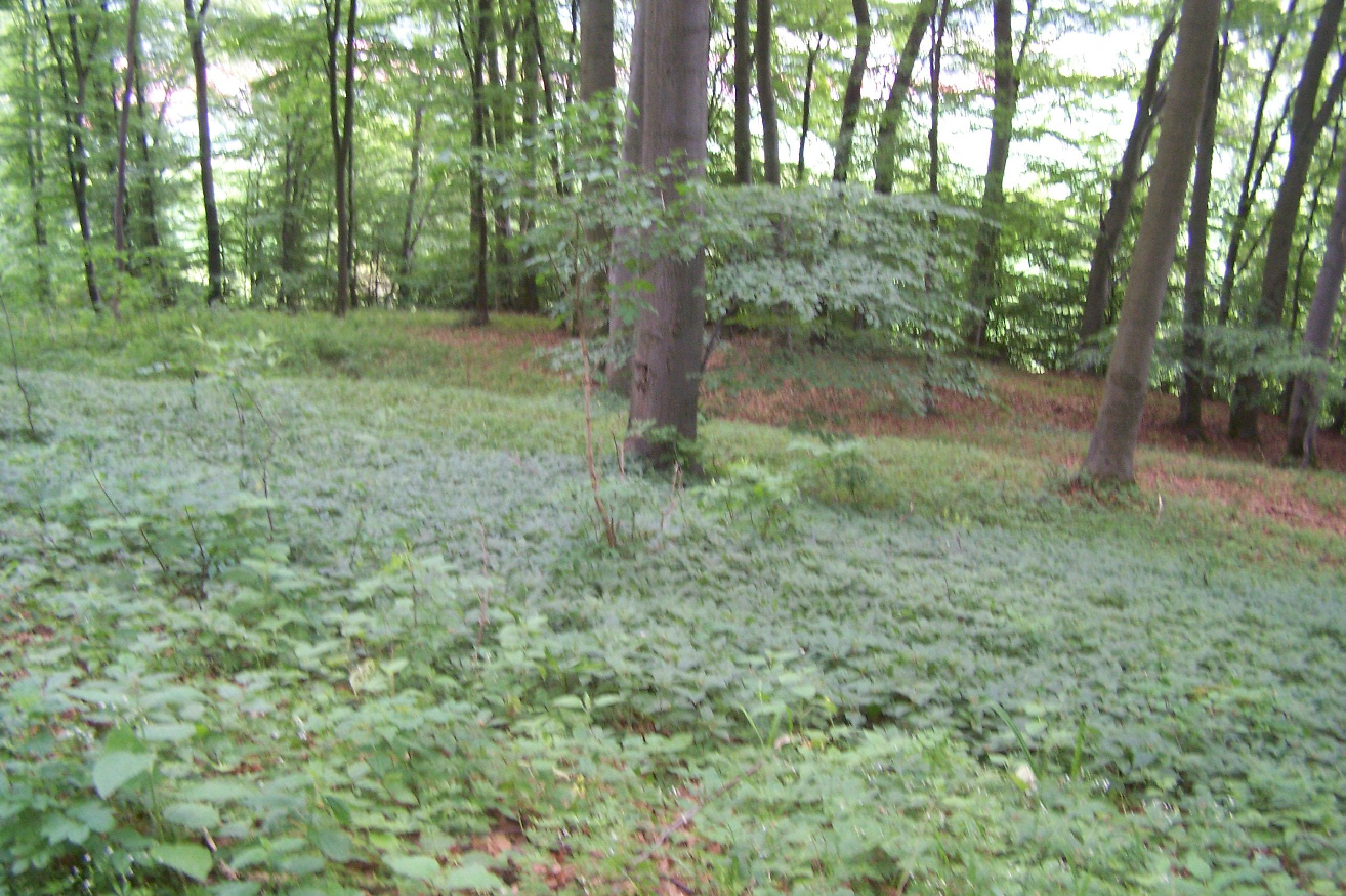 Wall structures at Fischberg castle.